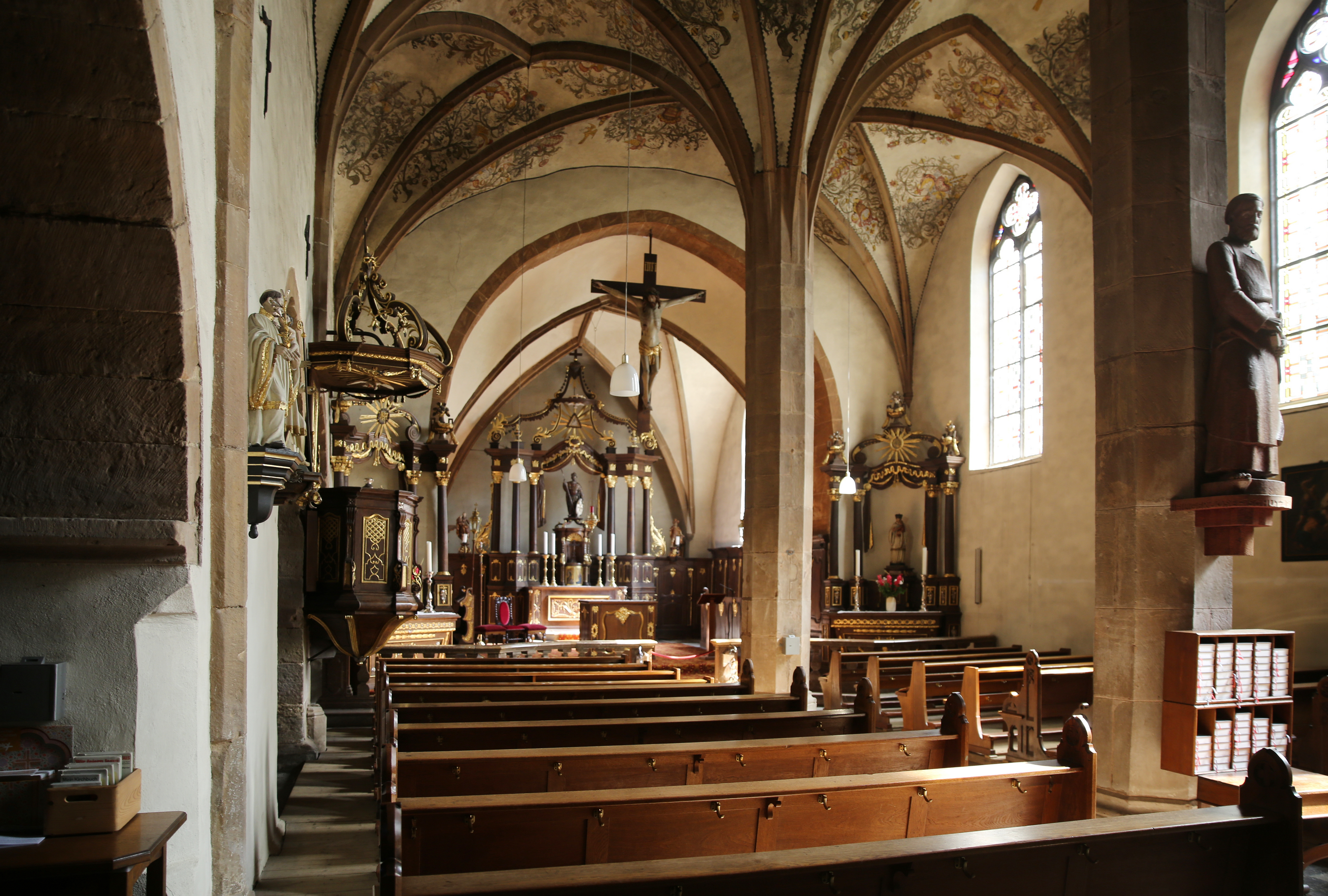 Longhouse, inside the former Catholic Parish Church St. Viktor, Hochkirchen (Nörvenich), Germany